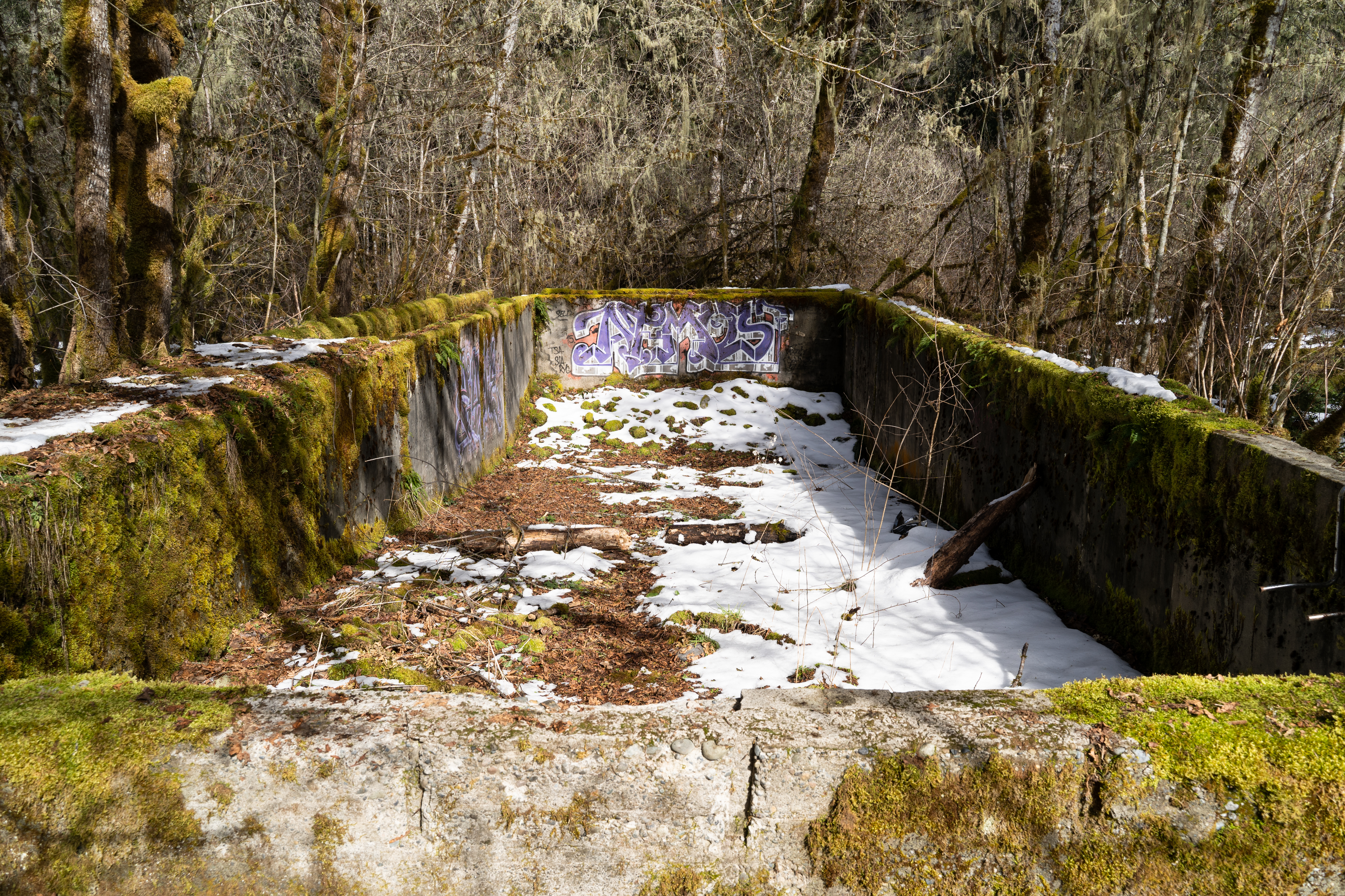 The Fairfax school swimming pool is the last major remnant of the town of Fairfax, Washington